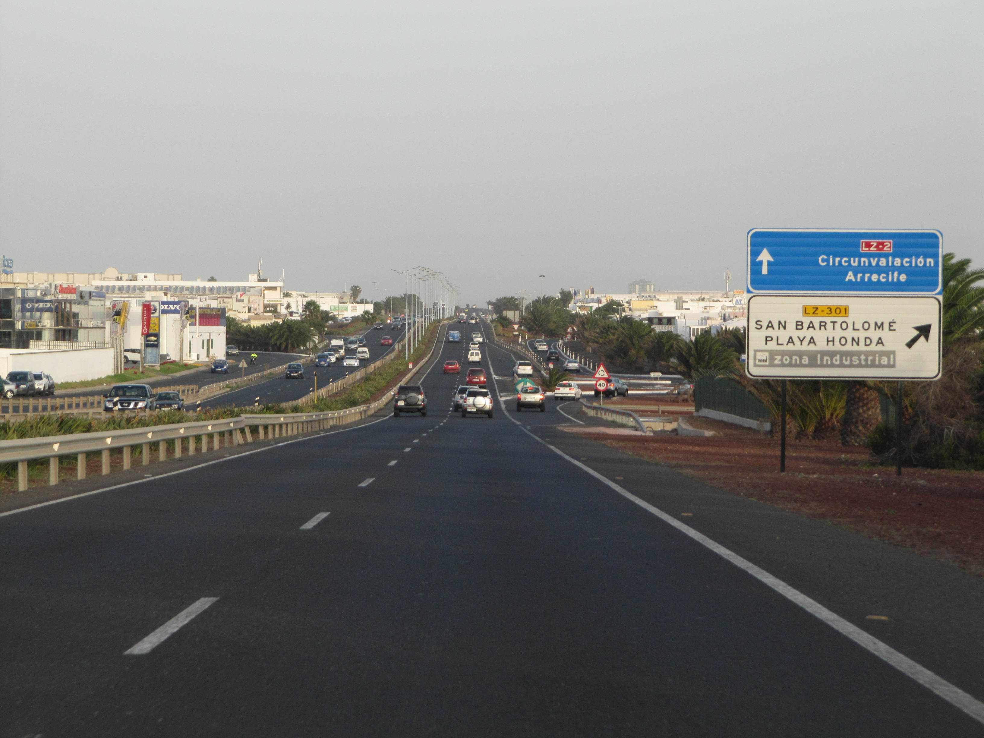 LZ2 road